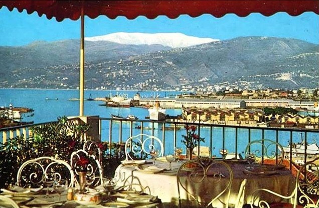 View from the terrace of the restaurant "lucullus" (the new , not the old) Near Khan Antoun Bey In 1970 - Beirut